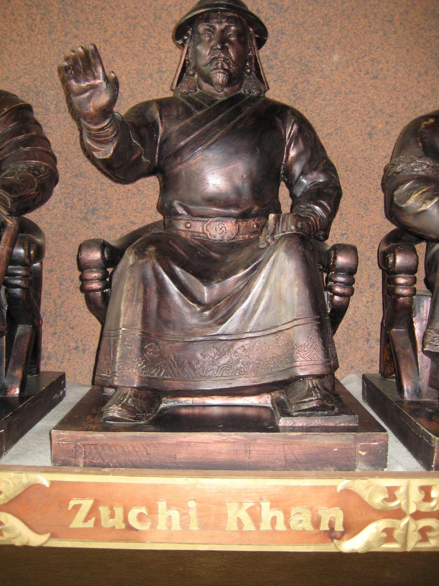 Juchi's statue in Mongol palace, Gachuurt Mongolia